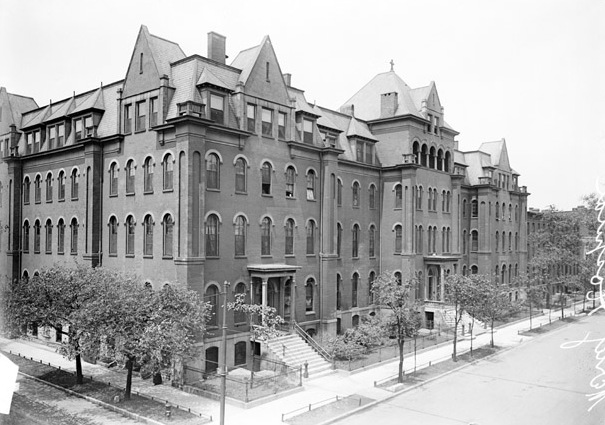 Mercy Hospital and Medical Center (where Theodore Roosevelt was taken after being shot on October 14 1912)